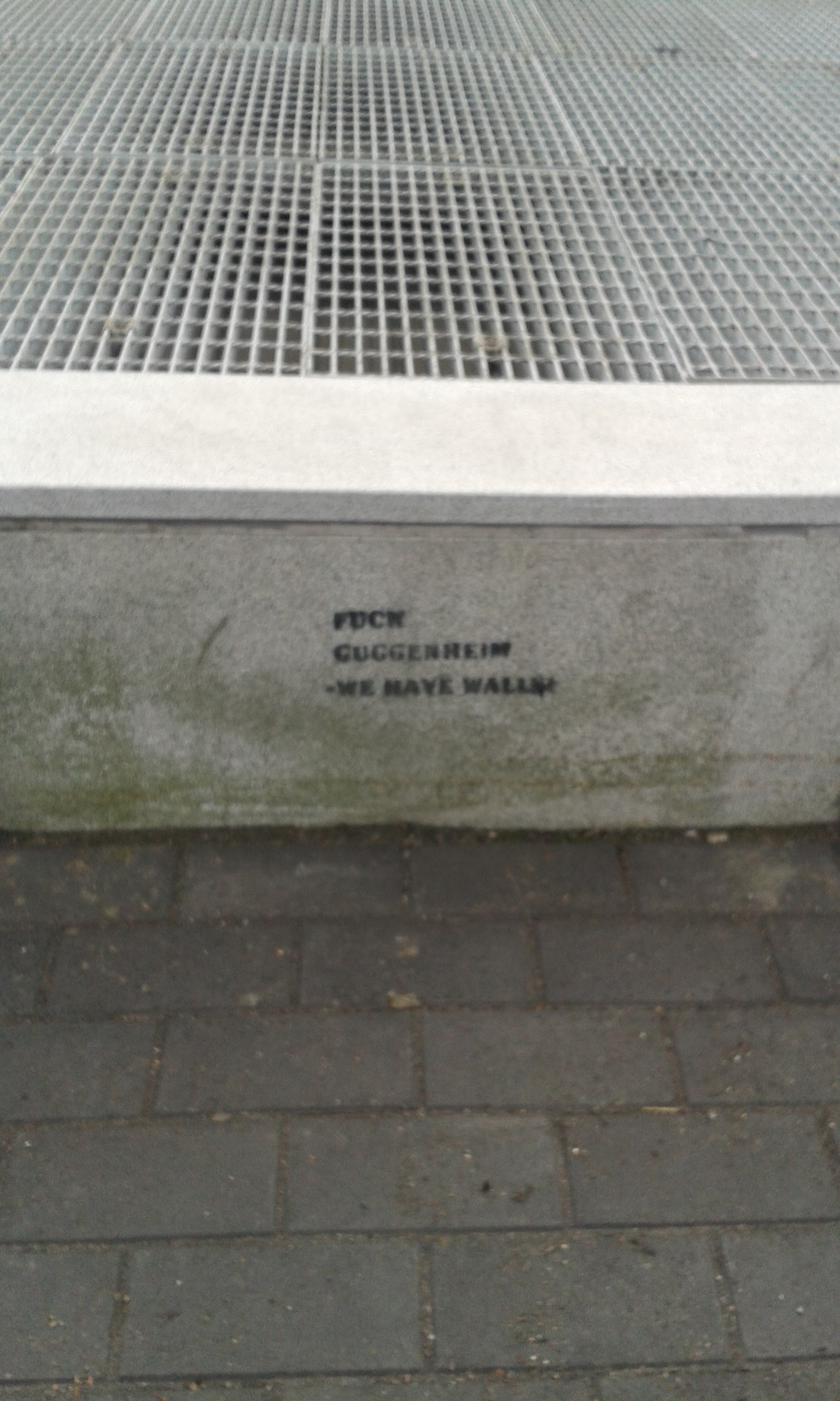 Graffito protest against the Guggenheim Museum Helsinki